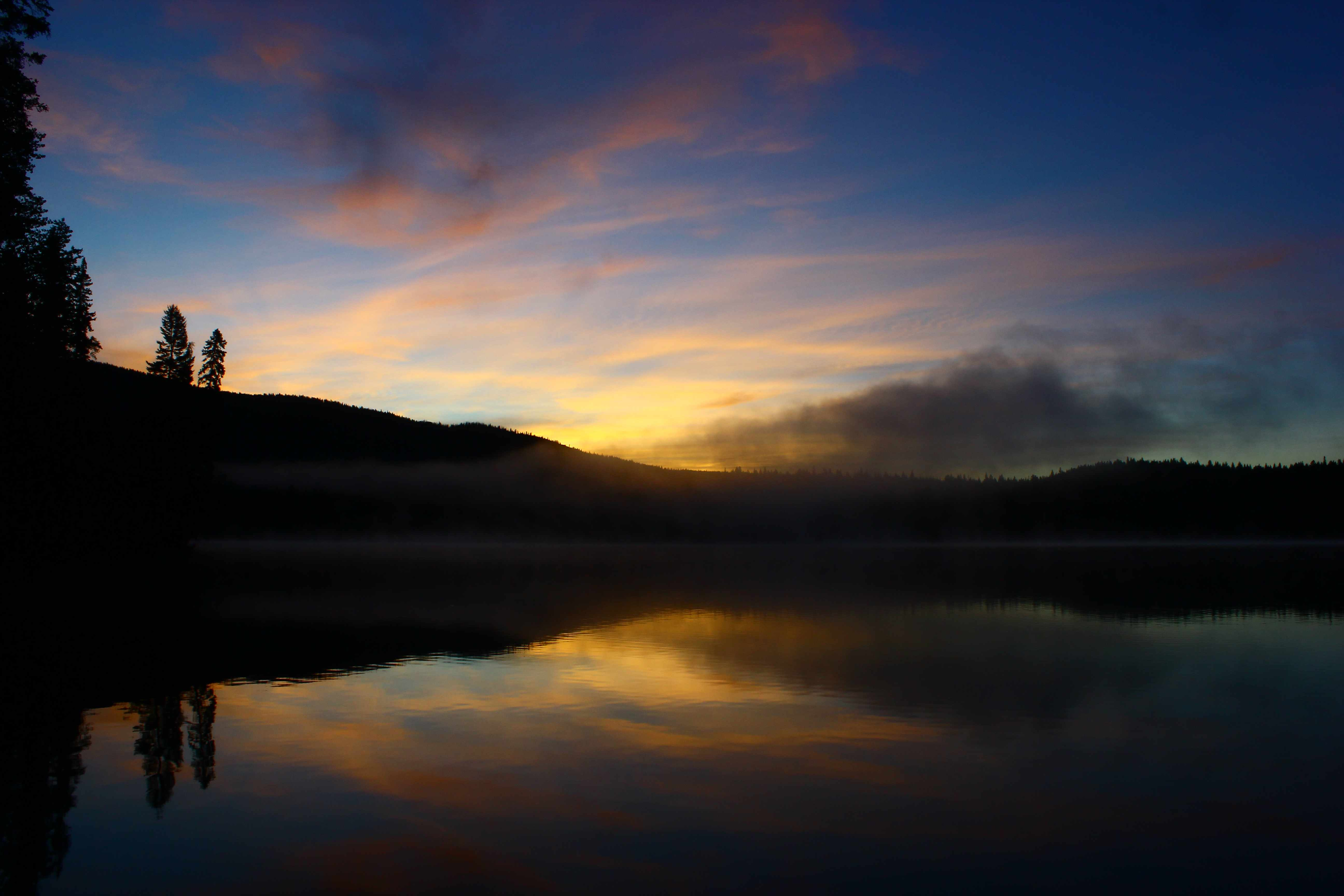 Sunrise take early in the morning at Sulphurous Lake, British Columbia.